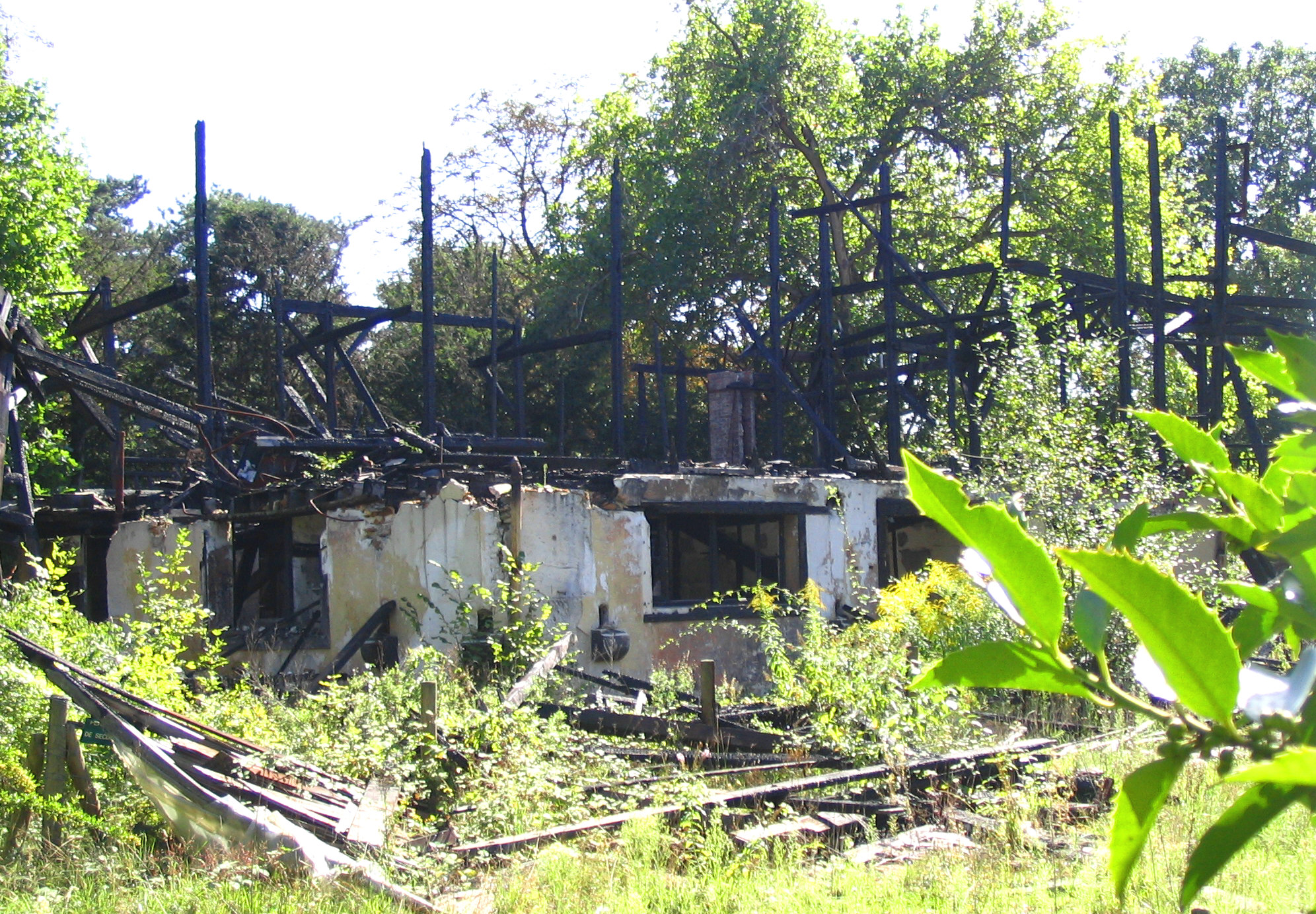 Jardin Tropical de Paris - France Ruines du Pavillon du Congo Tropical Garden in Paris, France Auteur/author: P.Charpiat - 2006